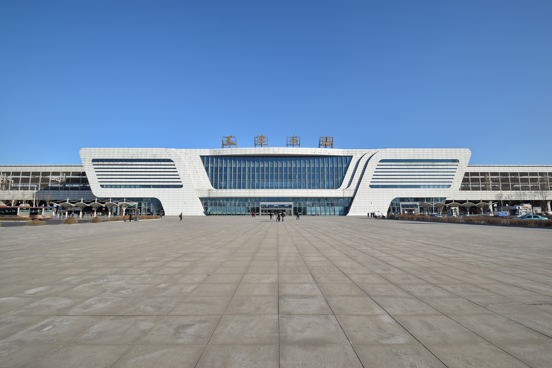 Tianjin Nan (South) Railway Station, Beijing-Shanghai High-Speed Railway